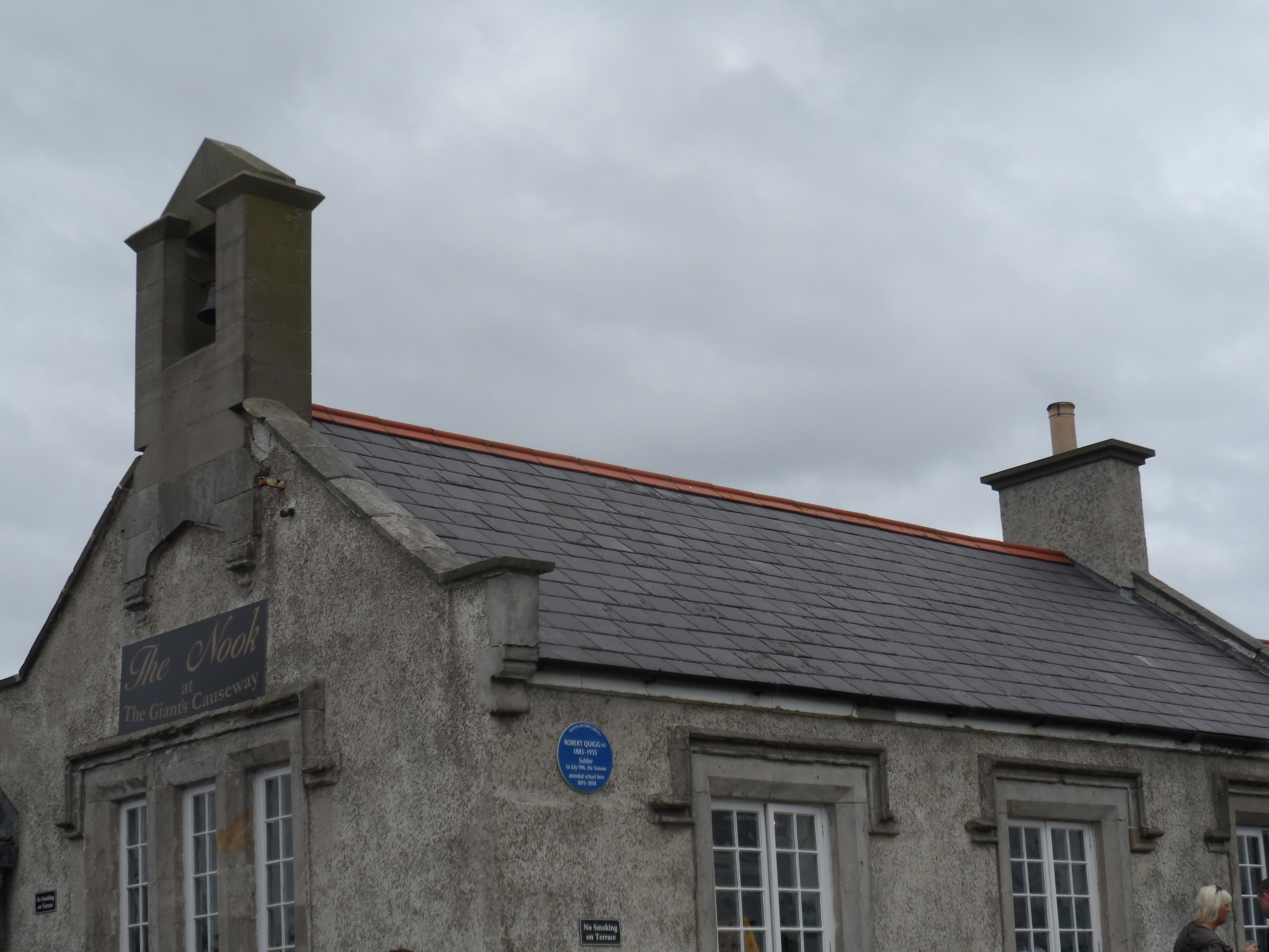 Schoolhouse near Giants Causeway